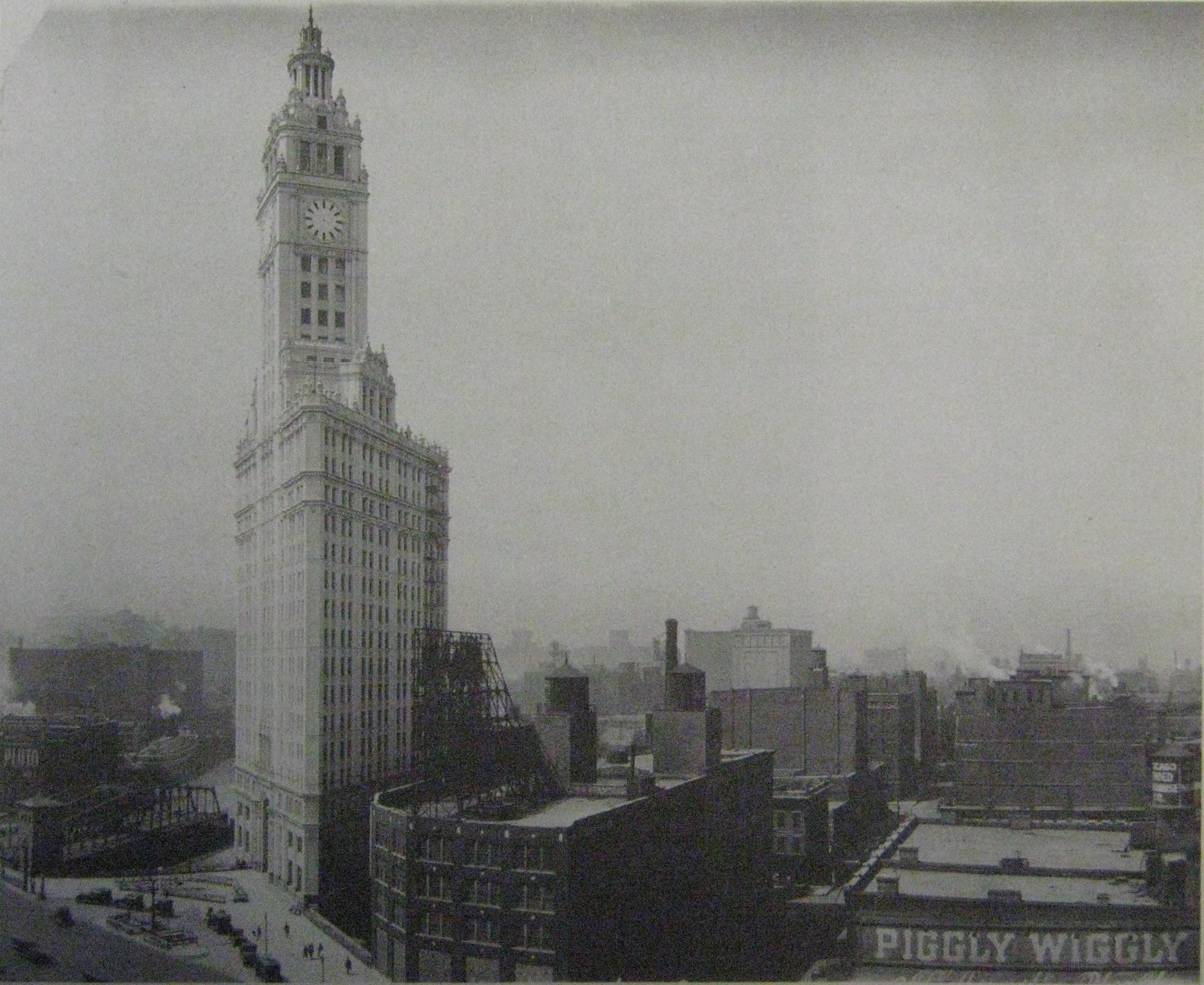 Rush Street Bridge next to Wrigley Building. Note "Piggly Wiggly" store at bottom right.